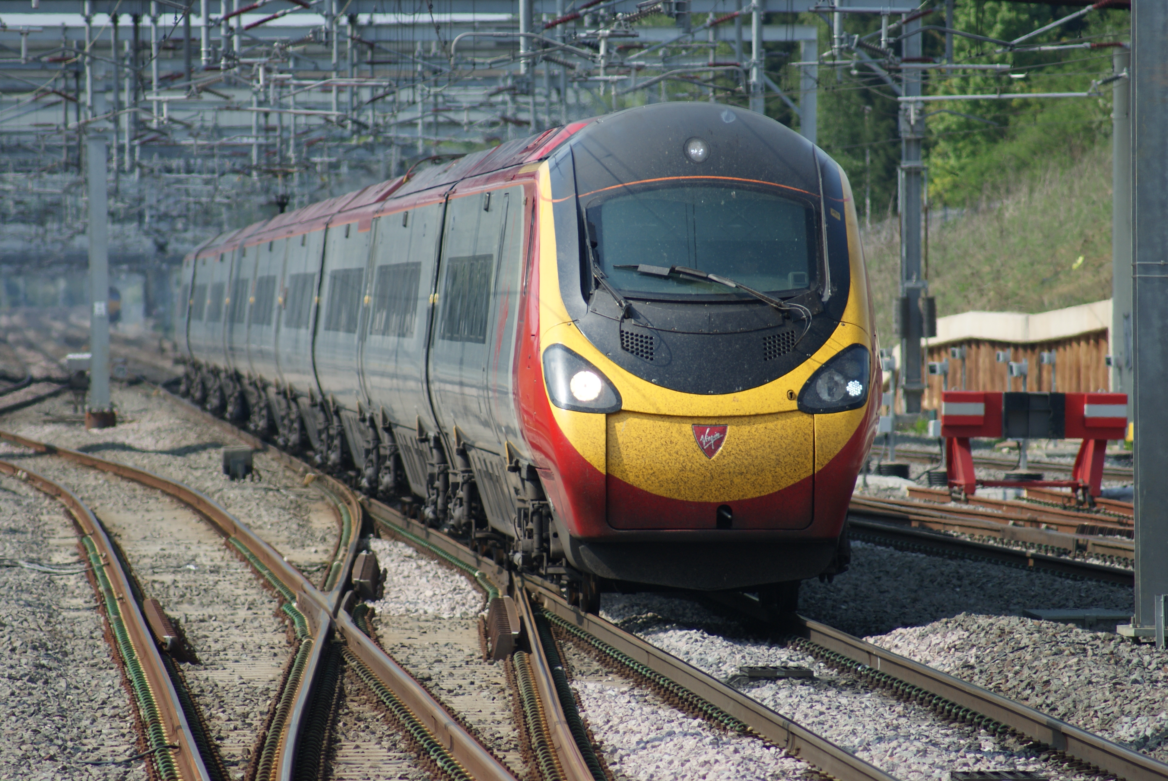 A Class 390 EMU approaches Milton Keynes Central at Speed from Liverpool to London